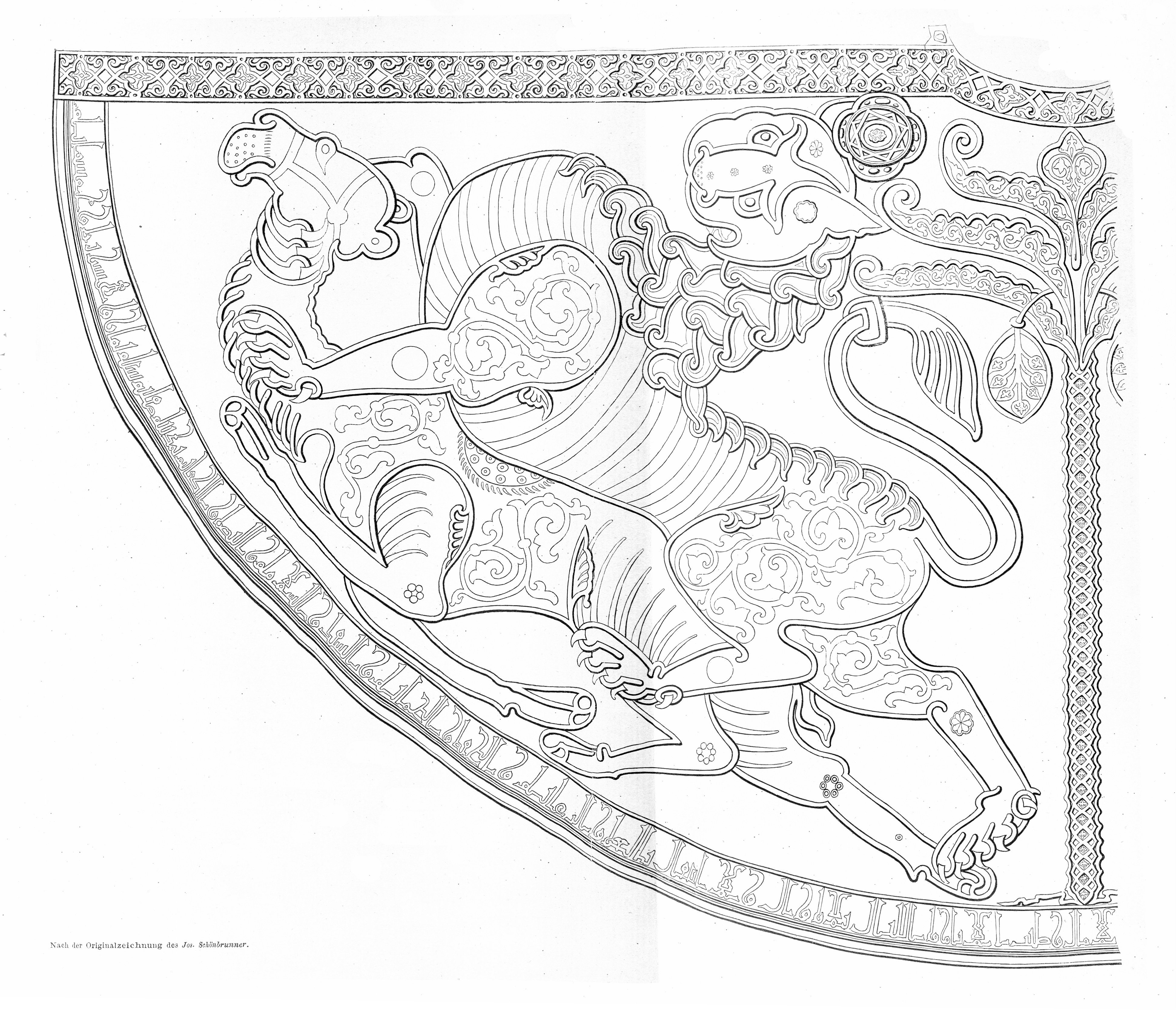 Bilder (Holzschnitte) aus dem in derselben Kategorie befindlichen Artikel aus den Mittheilungen der kaiserl. königl. Central-Commission zur Erforschung und Erhaltung der Baudenkmale Band 2, 1857. Scanprojekt Bundesdenkmalamt Österreich This scan or this PDF-file was created within the Austrian Wikipedia-project Denkmalpflege Österreich (German only) supported by Wikimedia Germany and Wikimedia Austria as part of the Wikipedia community-project to collect public domain documents from the library of the Heritage Monuments Board of Austria. This document describes or depicts an object which is located in Austria today. Send requests for uncompressed scans to Hubertl. This work is in the public domain in the United States, and those countries with a copyright term of life of the author plus 100 years or less. This file has been identified as being free of known restrictions under copyright law, including all related and neighboring rights.